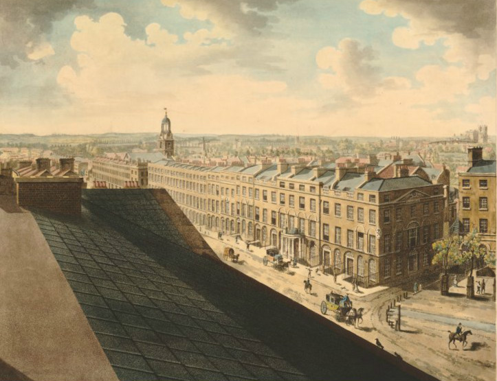 Detail or single print from a six-print panorama of London, view from the top of the Albion Mills at the south end of Blackfriars bridge. This panel shows Blackfriars Road, looking roughly south towards Christchurch Southwark, with the portico of 3 Blackfriars Road (the Blackfriars Rotunda) visible.